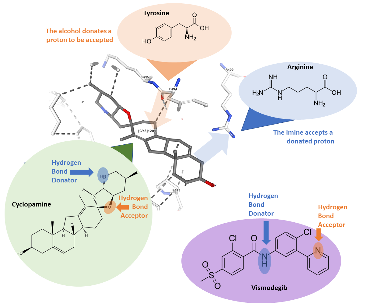 Comparison of cyclopamine and cyclopamine-derivative Vismodegib and their interaction with the Smoothened receptor. Information gathered from [1]. Image of cyclopamine in receptor gathered from the Protein Database, 409R [2].